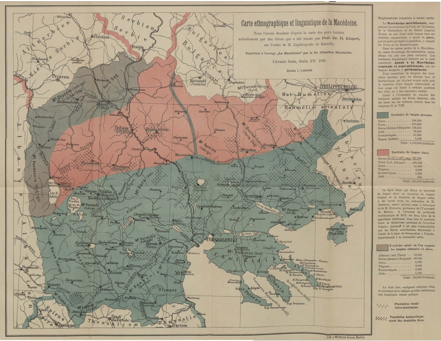 The map shows the ethnolinguistic groups in Macedonia, at the end of 19th c. according to the Greek author Cleanthes Nikolaides. At that time, Bulgarians, Serbs, Russians, Greeks and other nationalities were publishing "ethnographic maps" to support the respective nations' claims on Ottoman Macedonia. All considered unreliable today (Henry Robert Wilkinson, 1951).